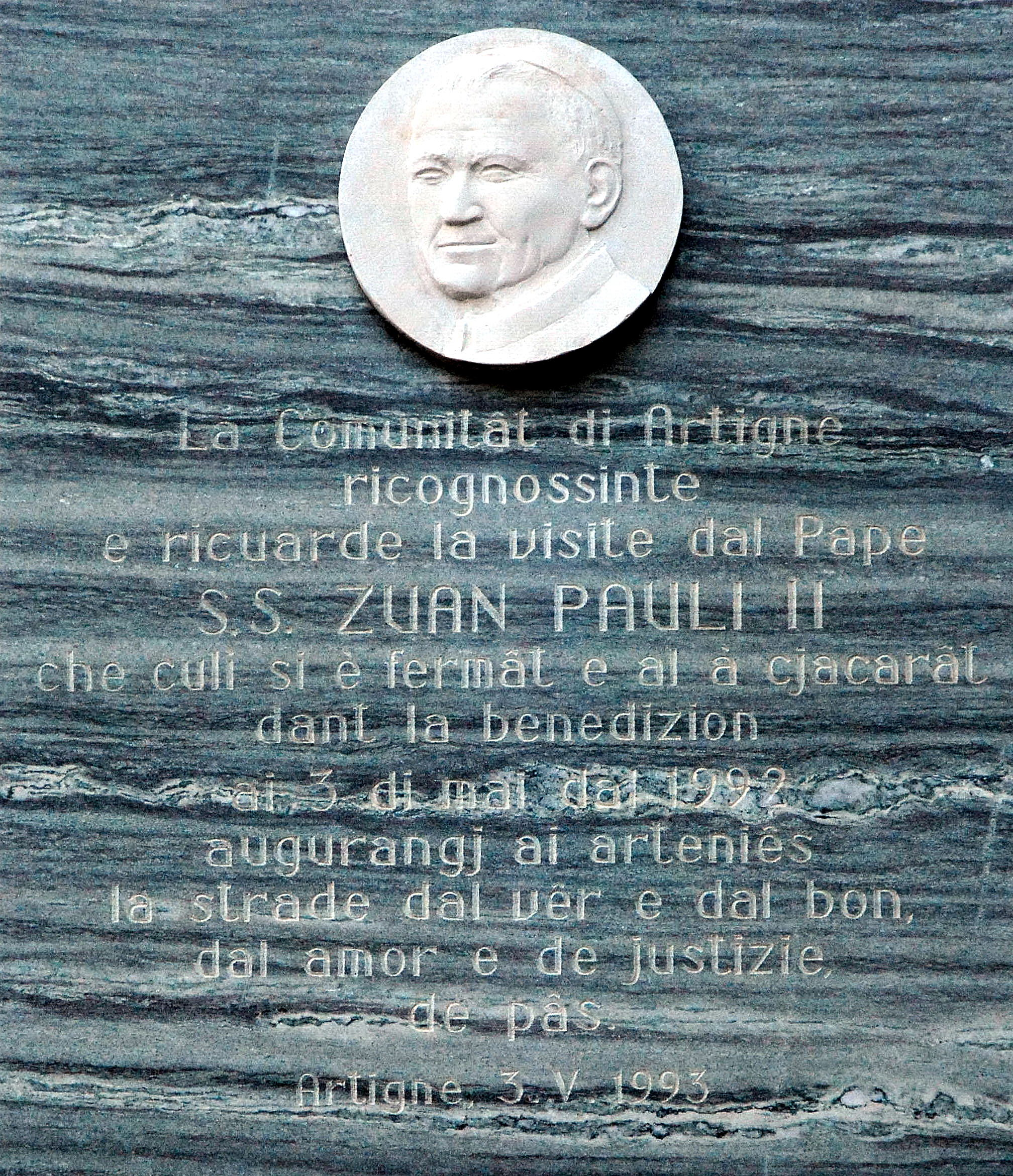 Marble inscription plate at Artegna about the pope-visit there on May 3rd, 1992, in the province of Udine, Friuli, Italy